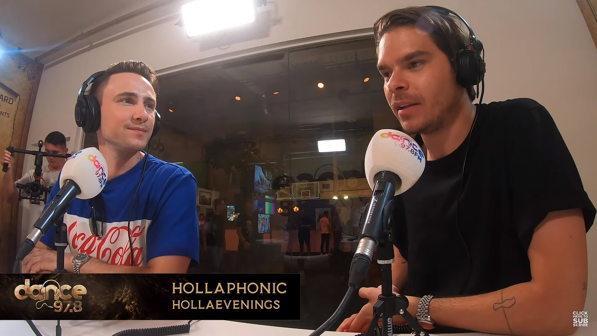 Lucas & Steve doing an interview at 97.8 Dance FM during Tomorrowland.